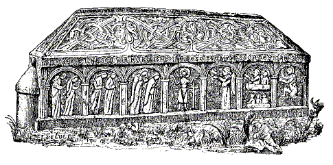 Tomb with runic inscription from Botkyrka cemetery